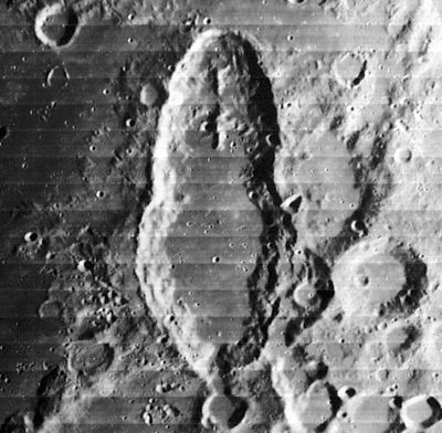 Lunar Orbiter IV image IV-155-H1, Schiller (center), Bayer (lower right, with tiny crater within)